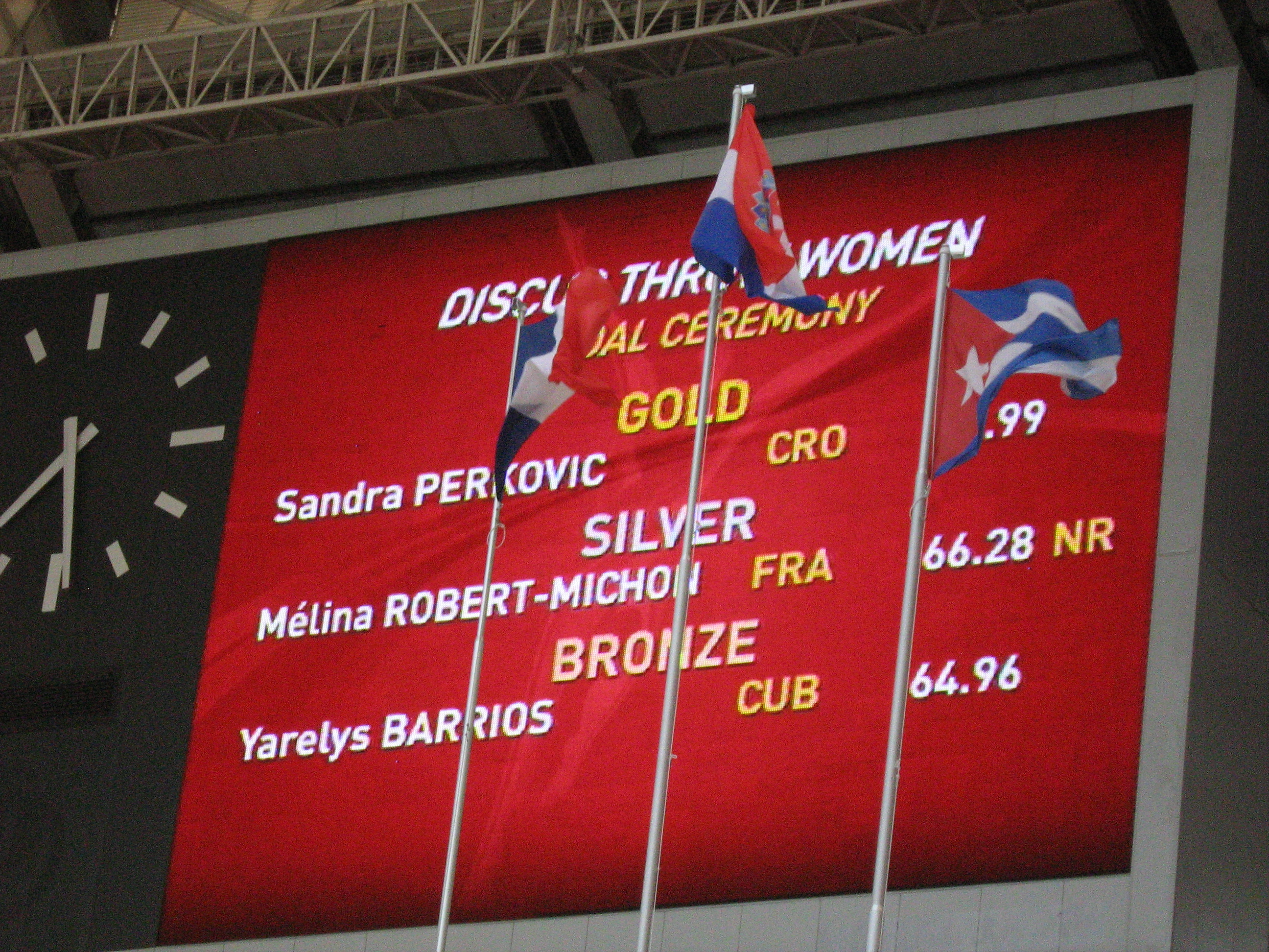 The second day of the World Championships in Athletics in Moscow 2013